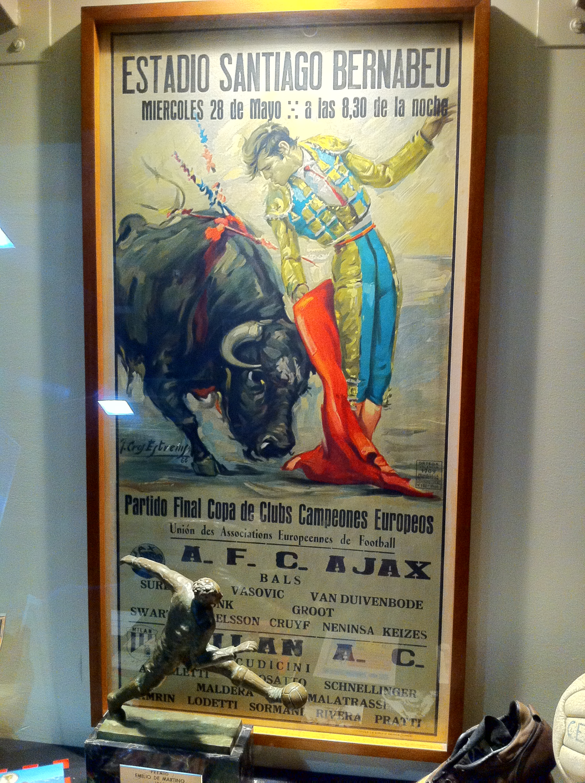 coppa dei campioni